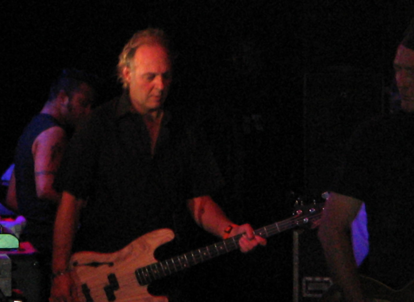 Bass player and music producer Martin Glover, AKA Youth, in concert with Killing Joke in Paris, le Trabendo, 27 sept. 2008